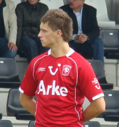 Image of the FC Twente-player Marko Arnautovic